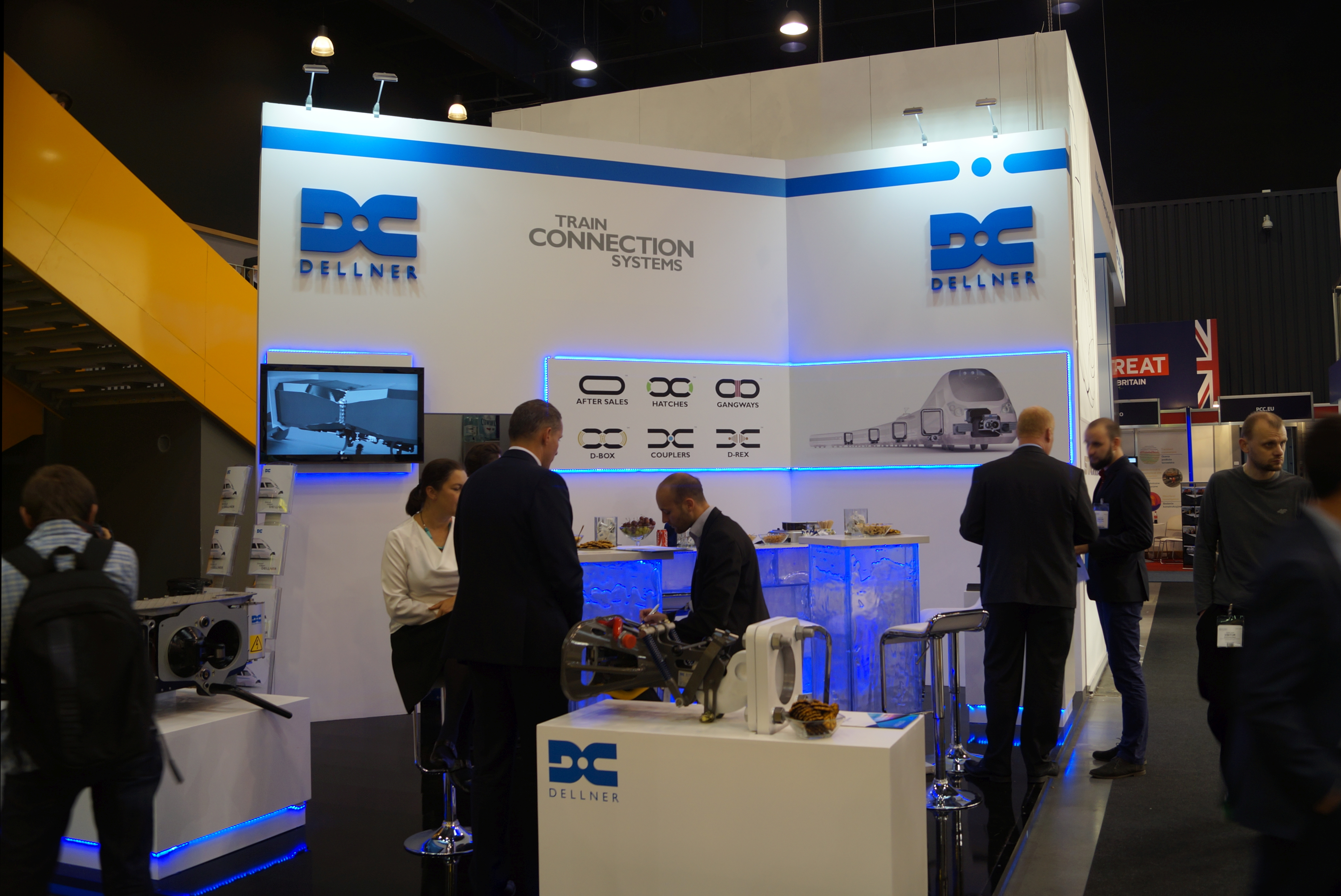 The making of this document was supported by Wikimedia Polska Association, within Wikigrant no. WG 2015-34. English | polski | +/− Stoisko Dellner na Targach Trako 2015